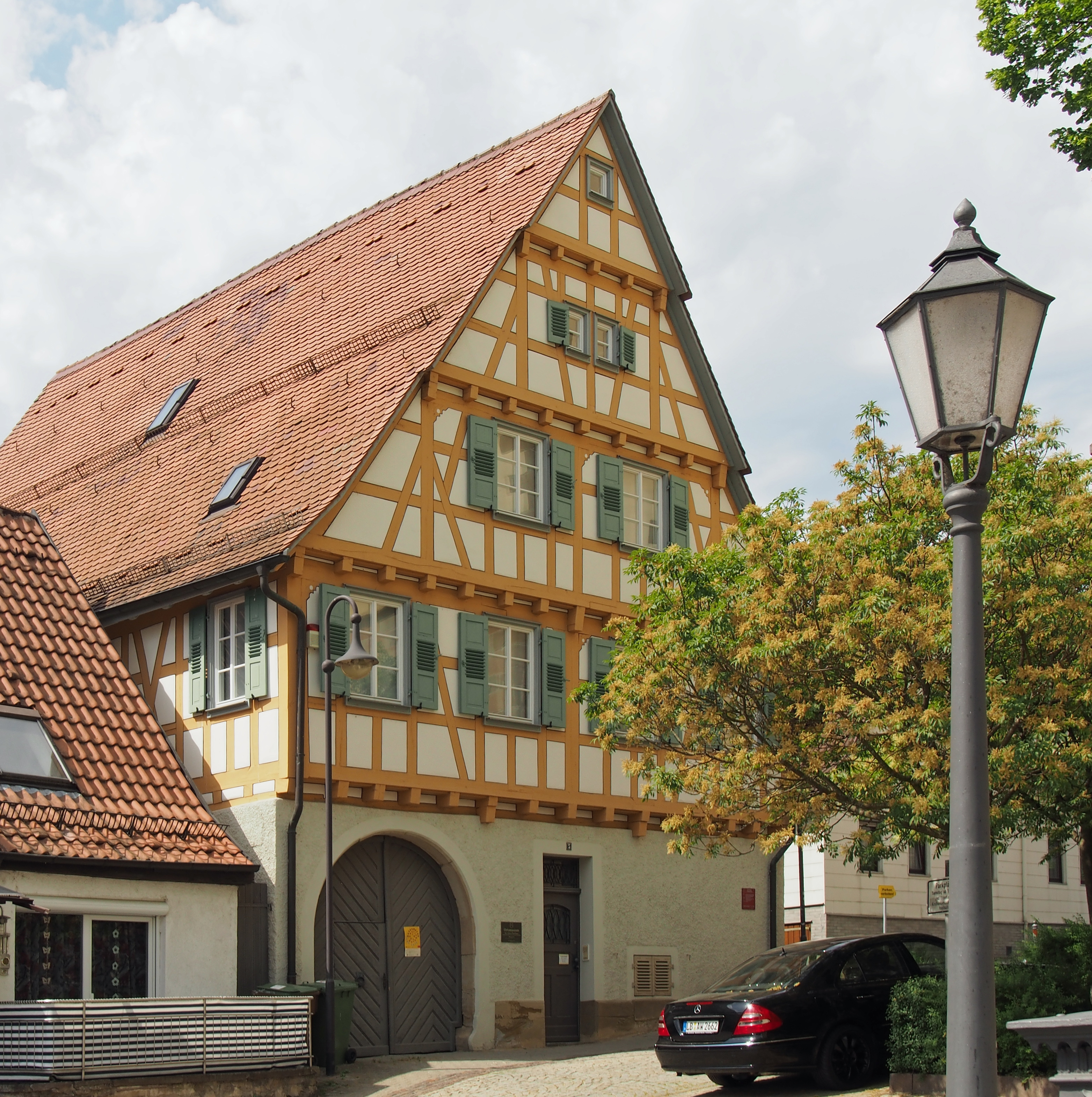 The former Frühmeßhaus (residence for the Catholic priest) in Schwieberdingen in the federal state Baden-Württemberg in Germany. The building is used today as a local museum.